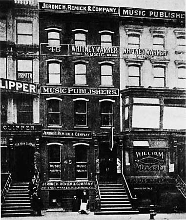 Tin Pan Alley on West 28th Street. (See File:43-47 West 28th Street.jpg (thumbnail below) for the same three buildings in 2011)